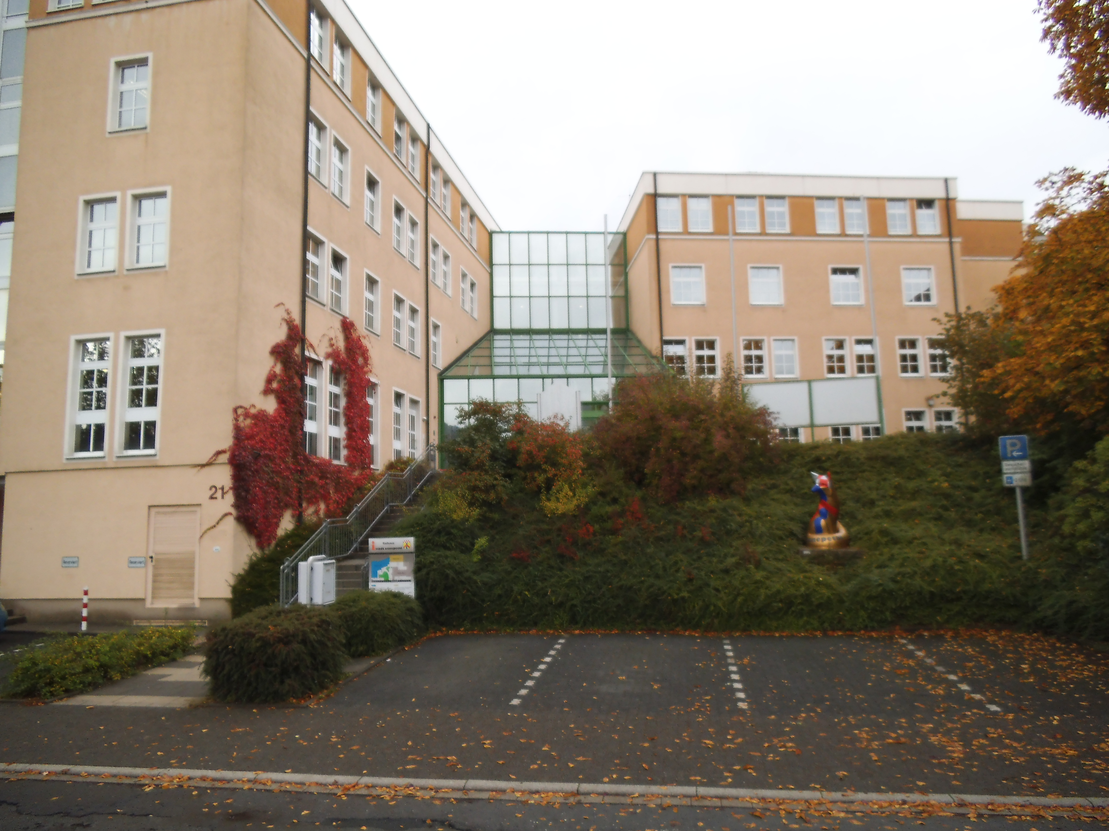 New Town Hall of Ennepetal on the 9th of October, 2013